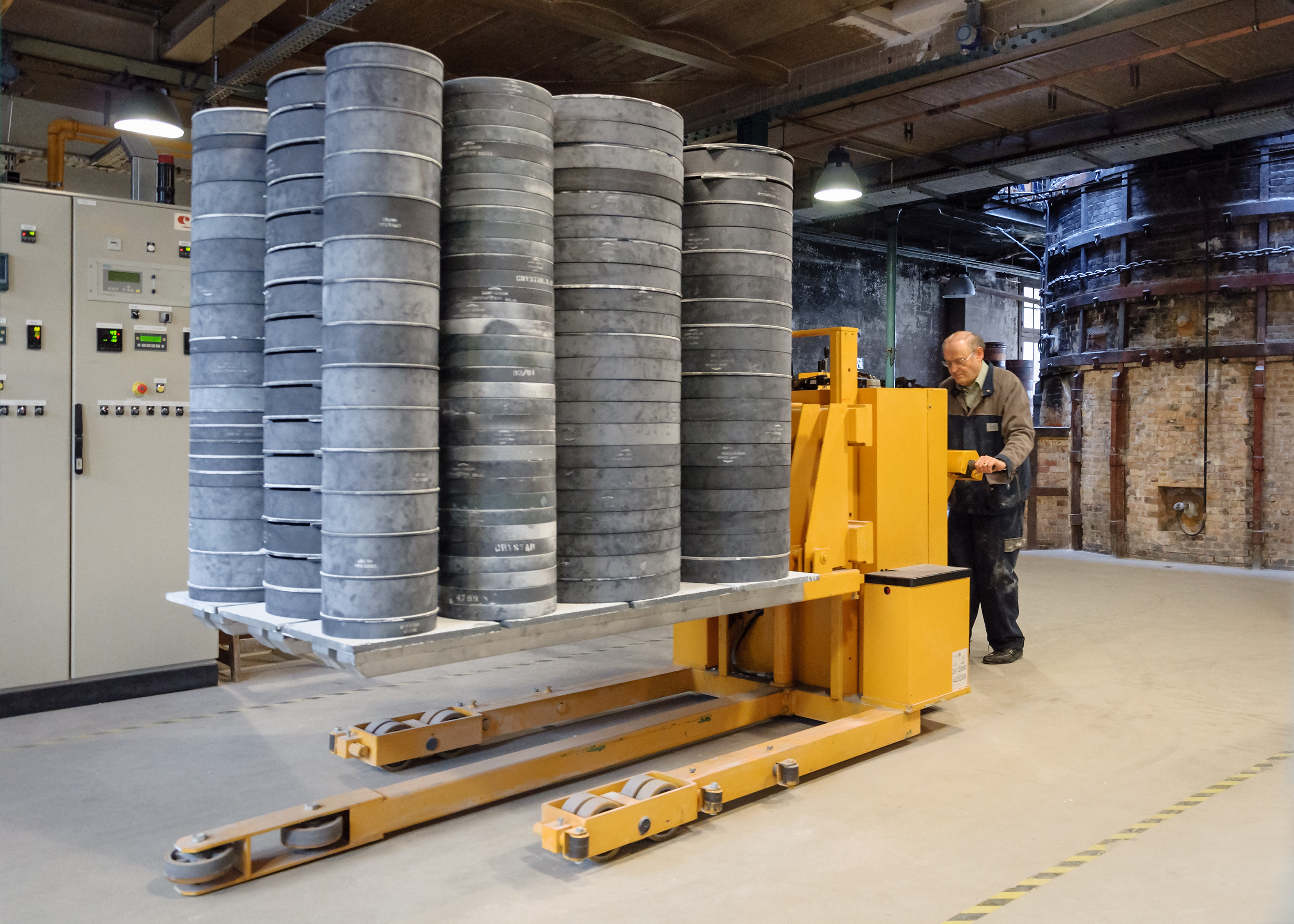 Kilns of the manufacture nationale de Sèvres, white ware kiln.